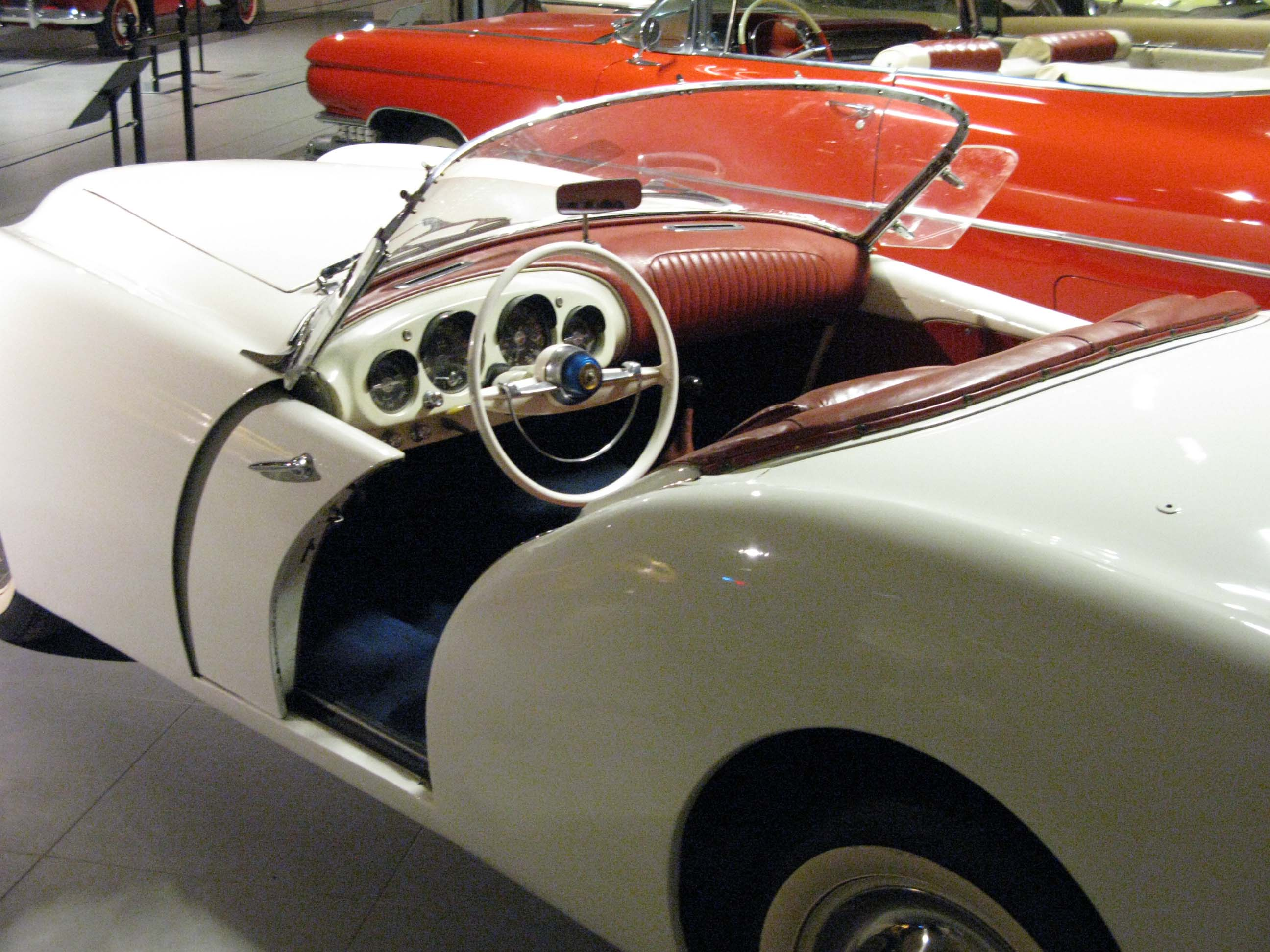 1954 Kaiser Darrin dash.